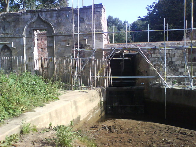 Howsham Mill, near to Howsham, North Yorkshire, Great Britain. Built by John Carr in late 18th C. Abandoned since 1947, and derelict since 1965 it is finally being restored by a dedicated team of skilled craftsmen. More information can be found at Link or Link